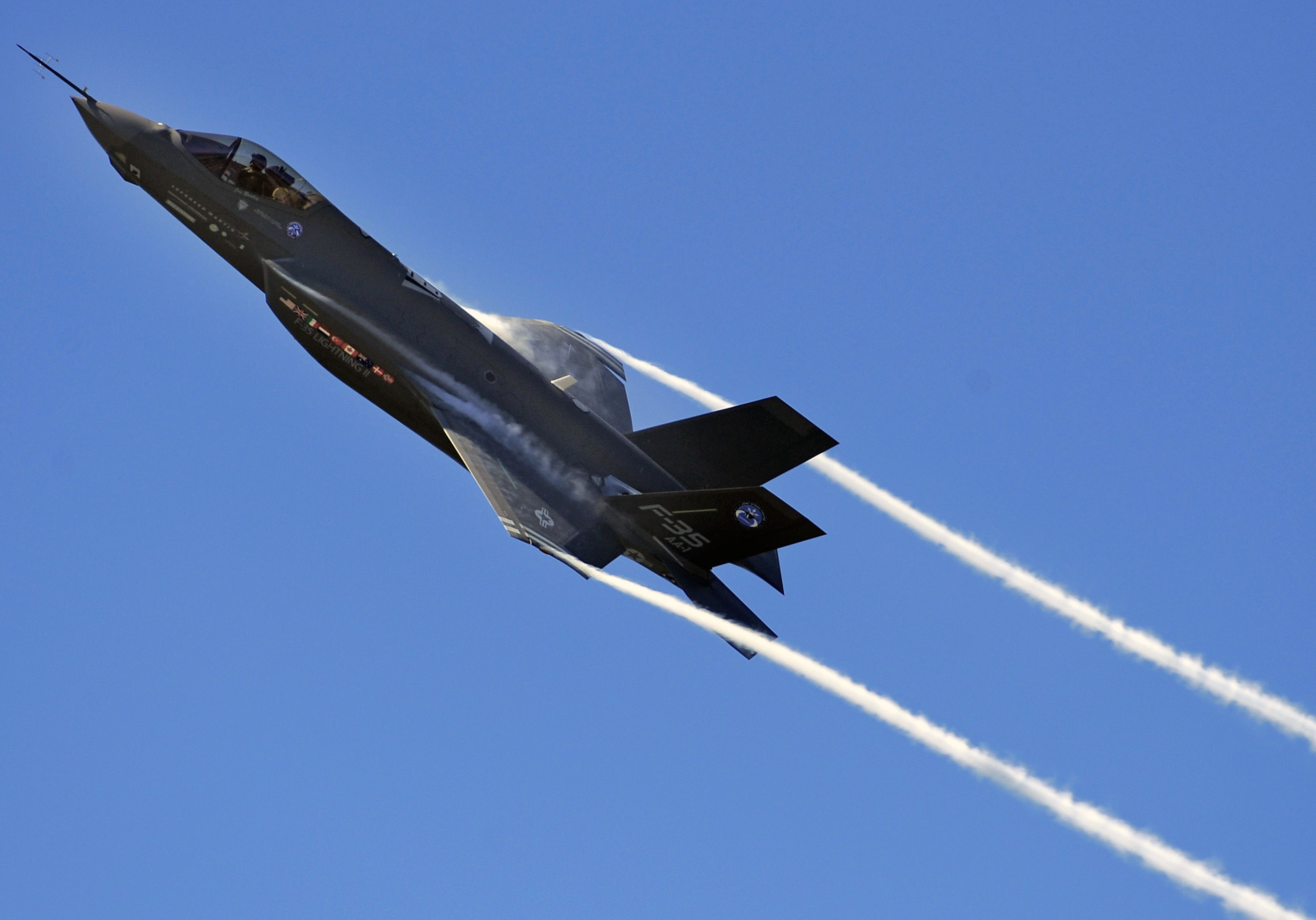 An F-35 Lightning II Joint Strike Fighter test aircraft banks over the flightline at Eglin Air Force Base, Fla., April 23, sending contrails streaming off the wings. The aircraft is the first F-35 to visit the base which will be the future home of the JSF training facility.